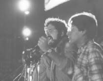 Ordorika: CEU demonstration at Zócalo february 9th, 1987